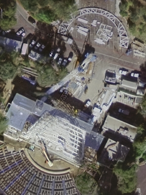 High Resolution Orthoimagery of Los Angeles, centered on 34°06'47.0"N, 118°20'20.6"W in the Hollywood Bowl. Image taken on January 8, 2004, during construction of the Bowl's new shell.